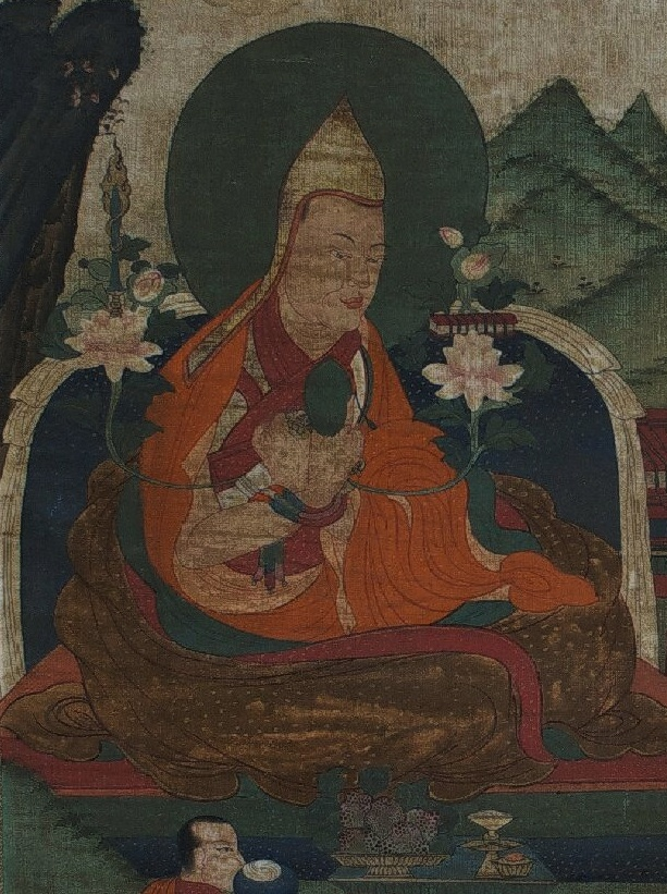 The Fourth Tatsak Jedrung, Lhawang Chokyi Gyeltsen b.1537 - d.1603